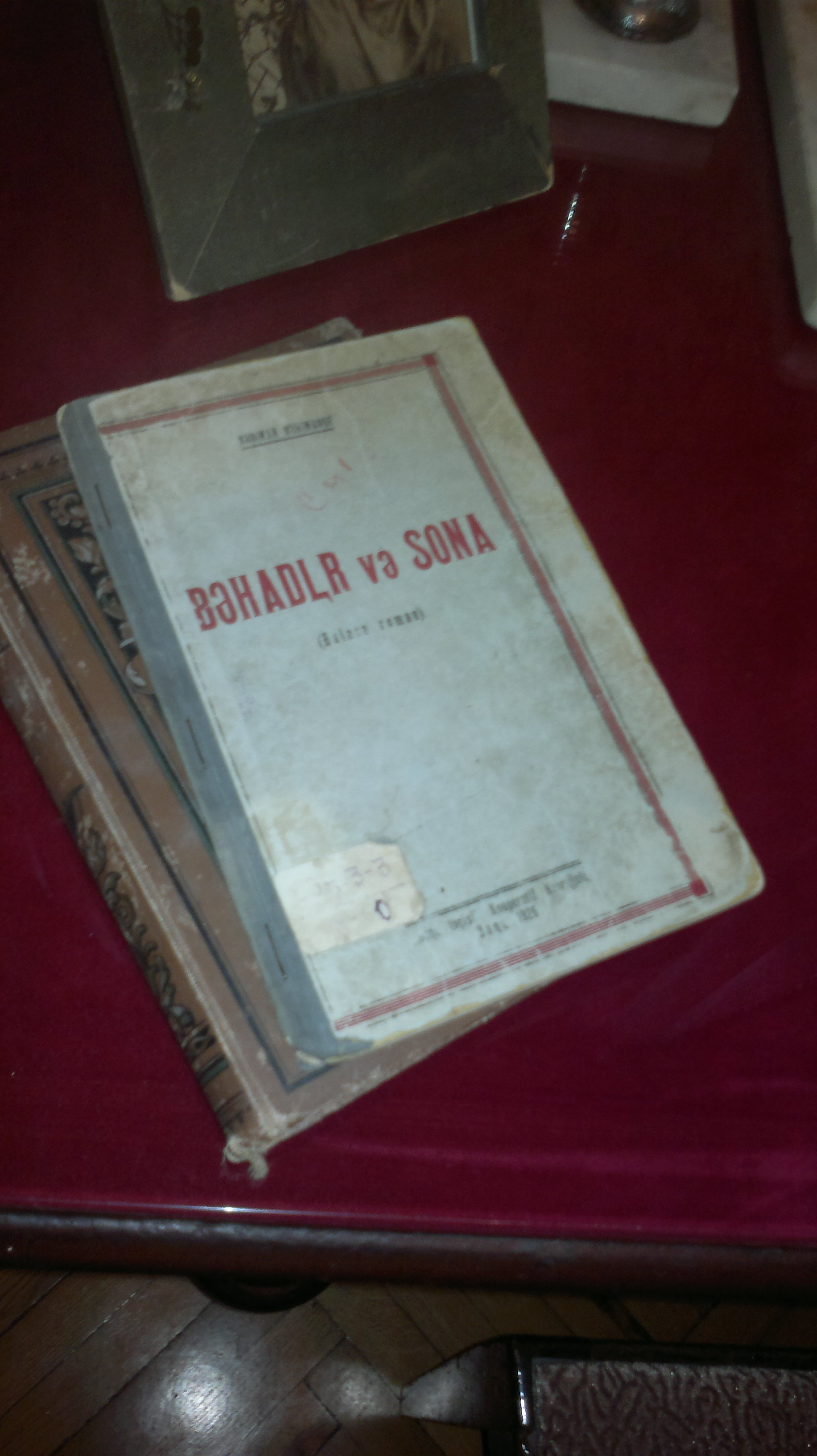 House-museum of Nariman Narimanov